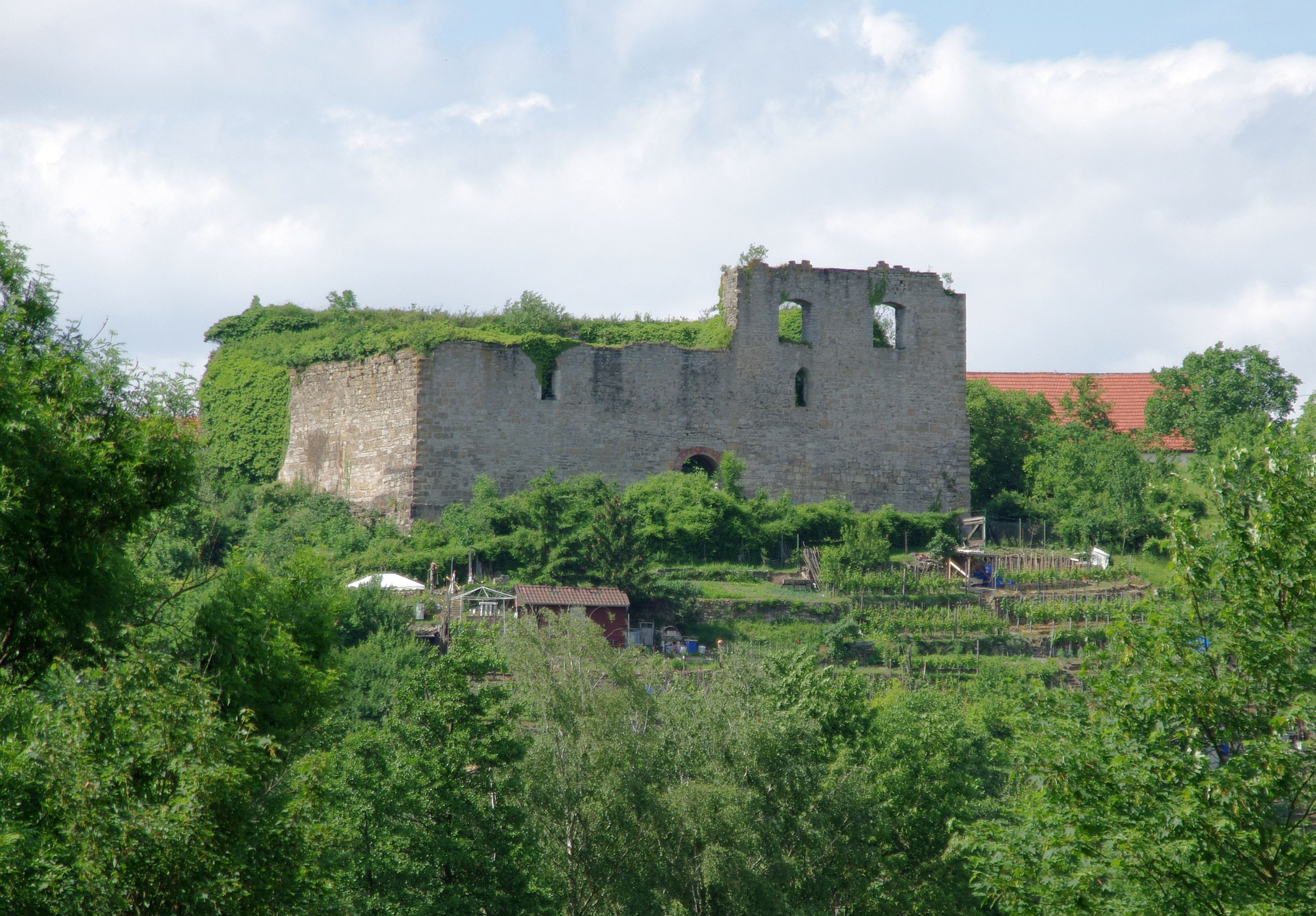 The castle ruin Altsachsenheim (belonging to Sachsenheim in the german state Baden-Württemberg) above the valley of the river Enz near Untermberg.